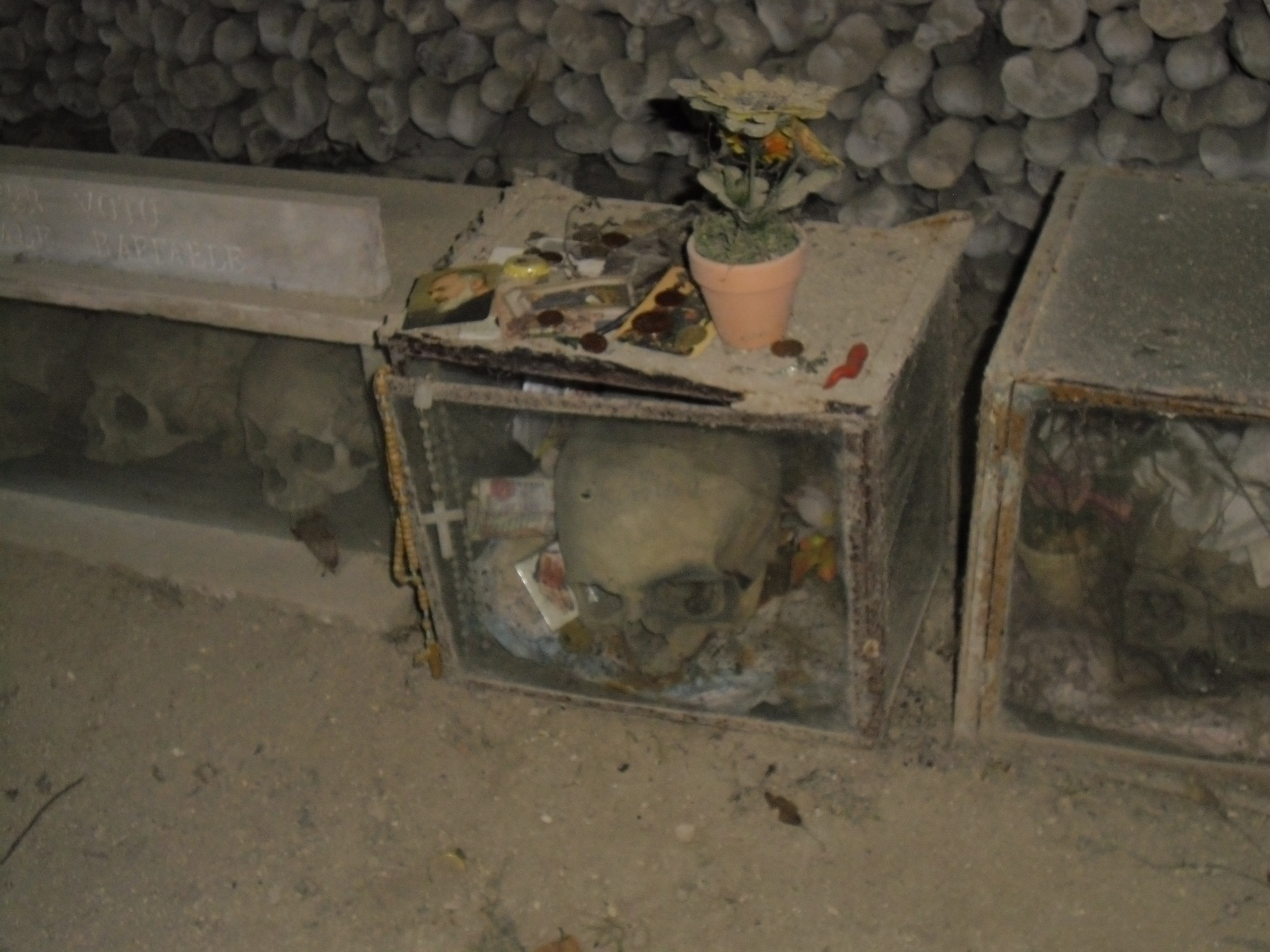 The skull of the Captain in the Fontanelle Cemetery in Naples.